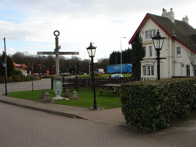 Bassett's Pole Public House and signpost The signpost marks the boundary between the counties of Stafford and Warwick. The inscription at the base of the signpost(Pole) reads: "On this site Lord Bassett of Drayton set up a boundary pole in the reign of King John and the year of Our Lord 1201". It is said that in the 18th/19th centuries the Pole was tall enough to be visible for quite a distance for travellers to find their way across the heath.